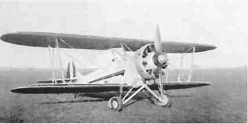 Italian Breda Ba.28 trainer aircraft